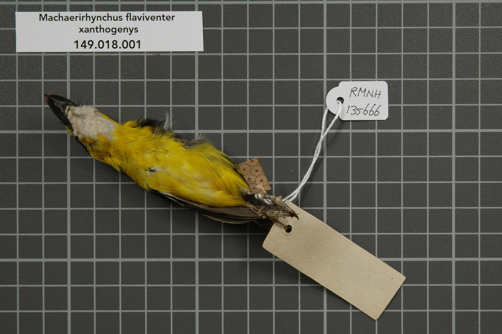 Machaerirhynchus flaviventer xanthogenys Gray, 1858